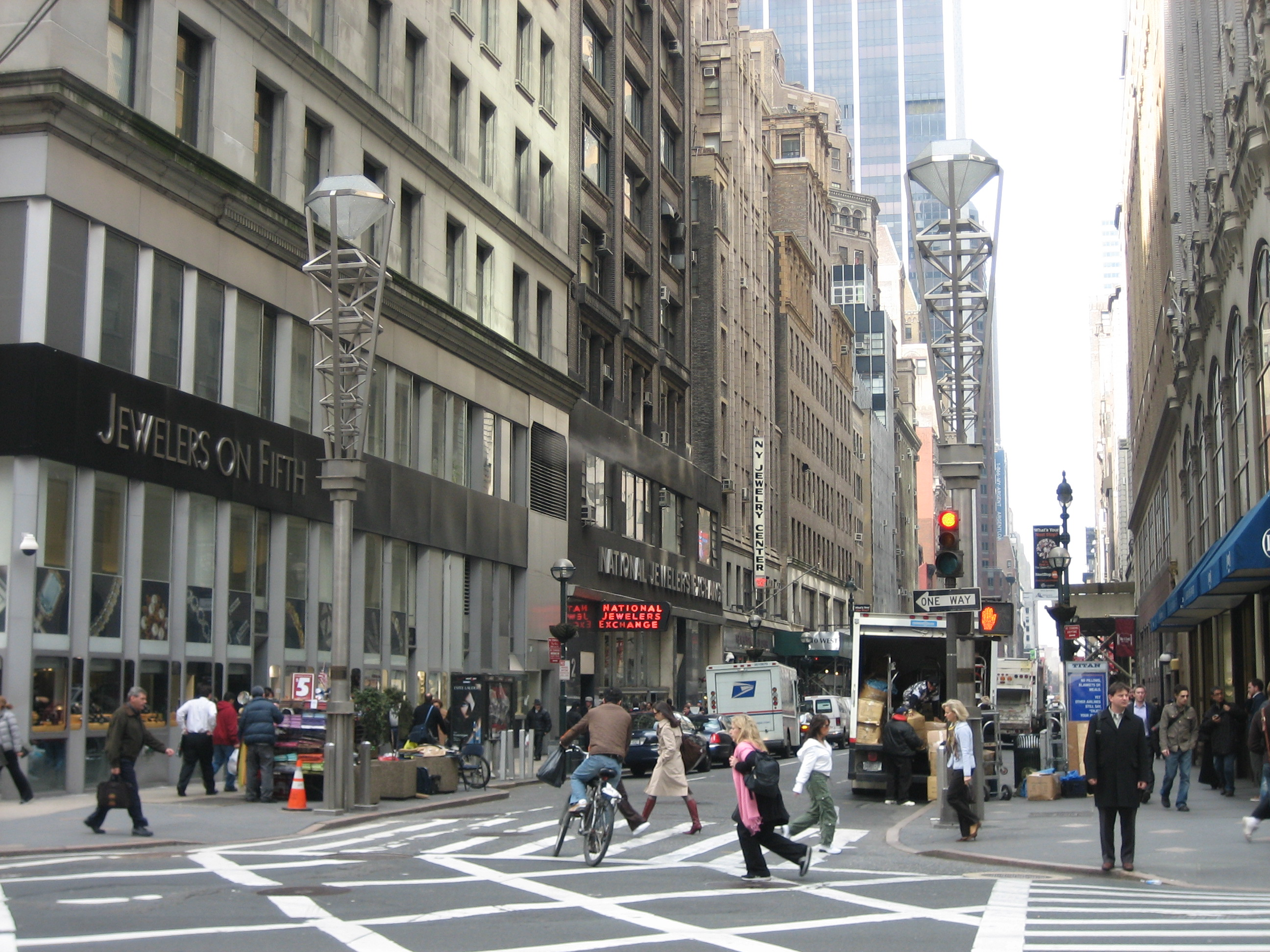 Photo of New York City's Diamond District at 5th Avenue and 47th Street